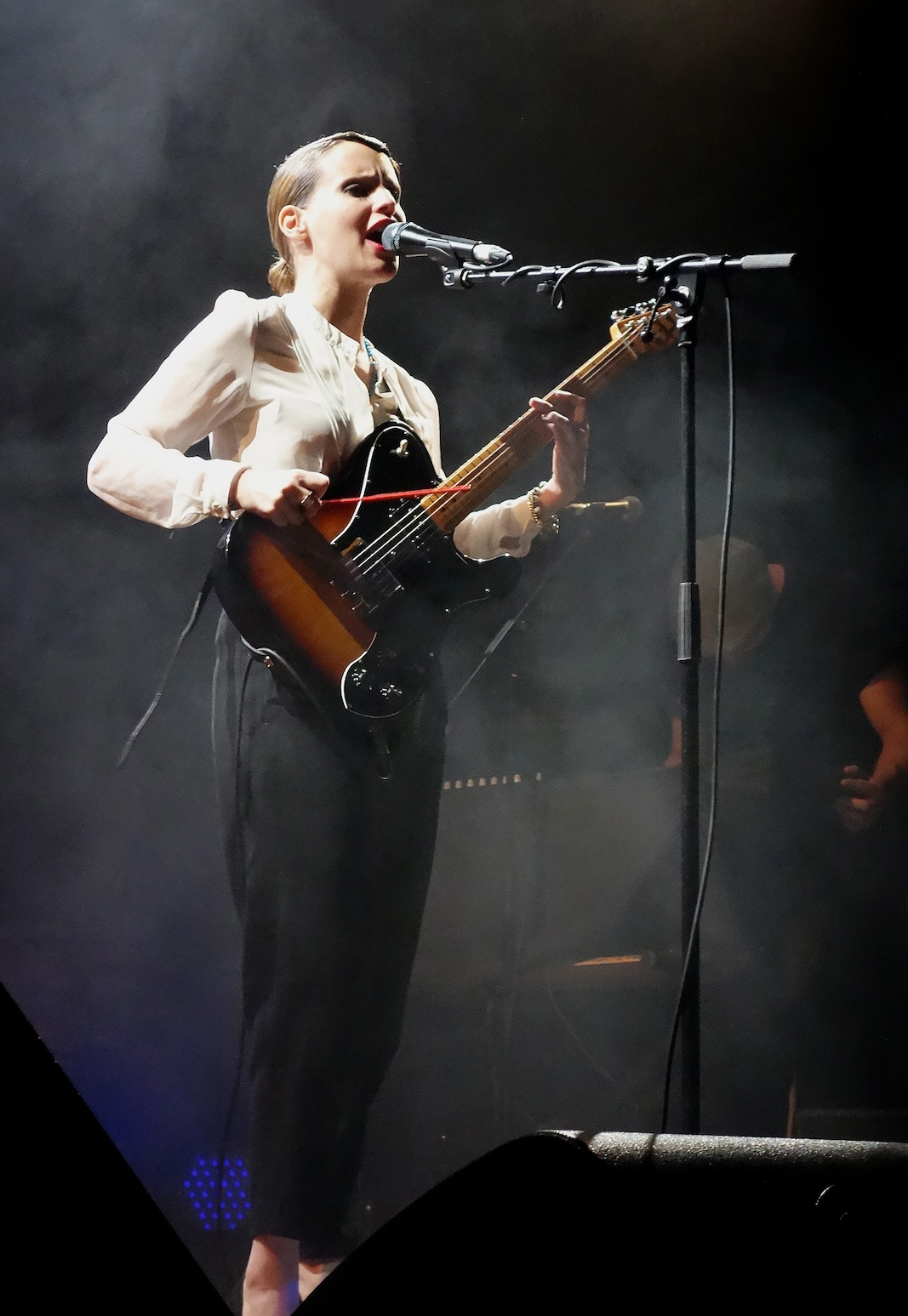 Anna Calvi performing at Islington Assembly Hall, London, UK, October 8, 2013.